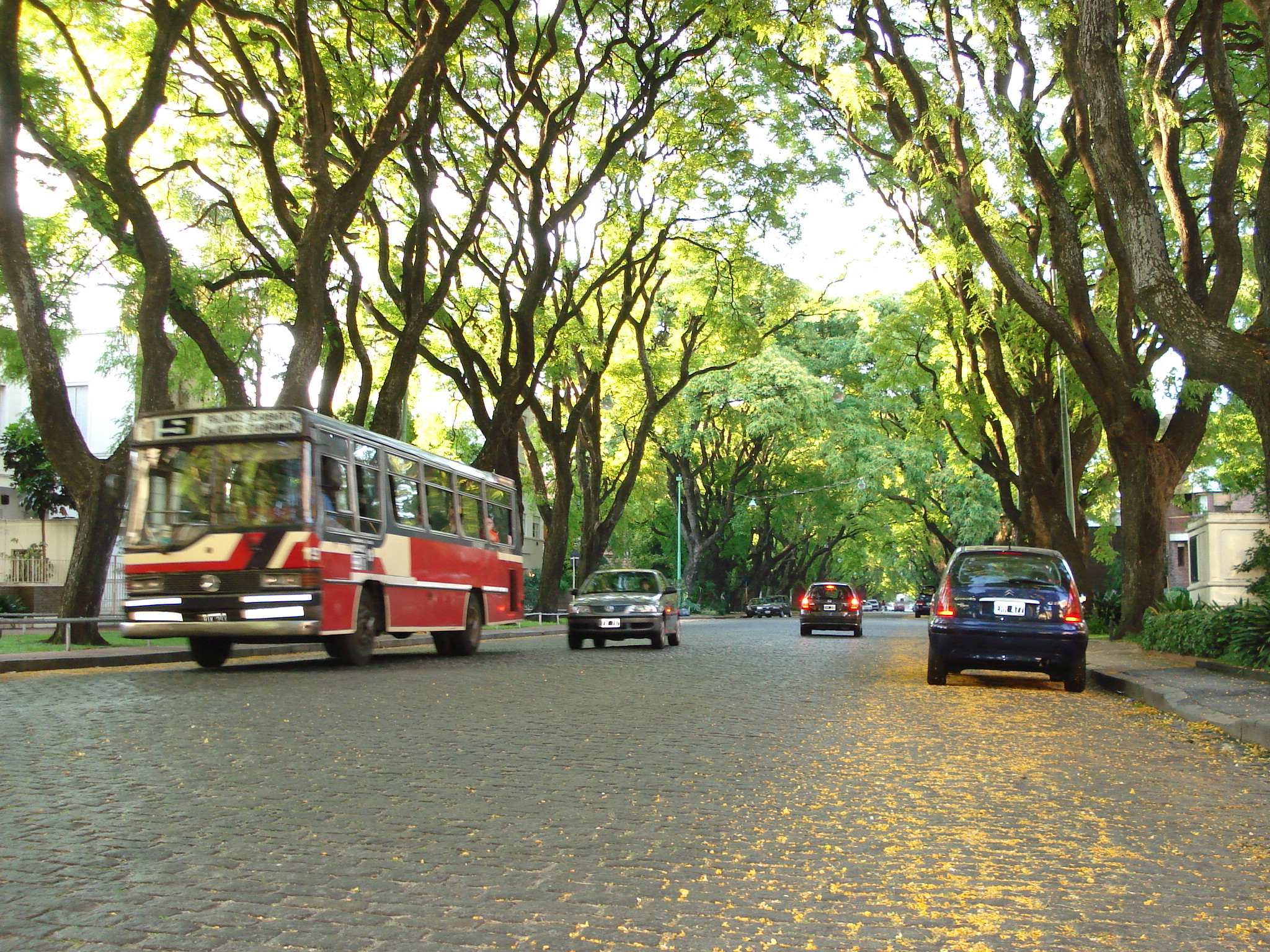 Melian Street, in the Belgrano ward of Buenos Aires.